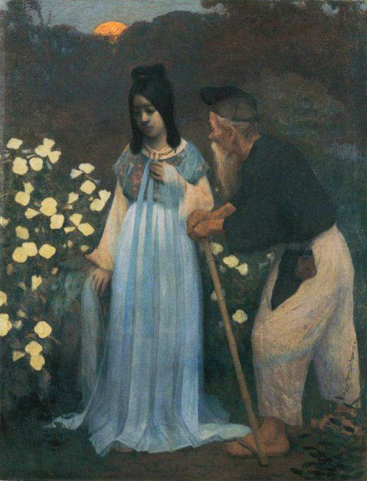 Kaguya-hime, by Mitustani Kunishiro, Kasama Nichido Museum of Art, Kasama, Ibaraki, Japan